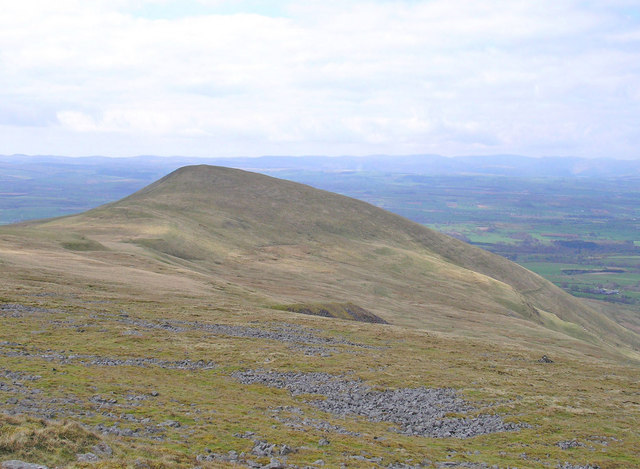 Murton Pike On the western edge of the Pennines, Murton Pike overlooks Appleby-in-Westmorland. The Lakeland fells can be seen on the right-hand horizon.